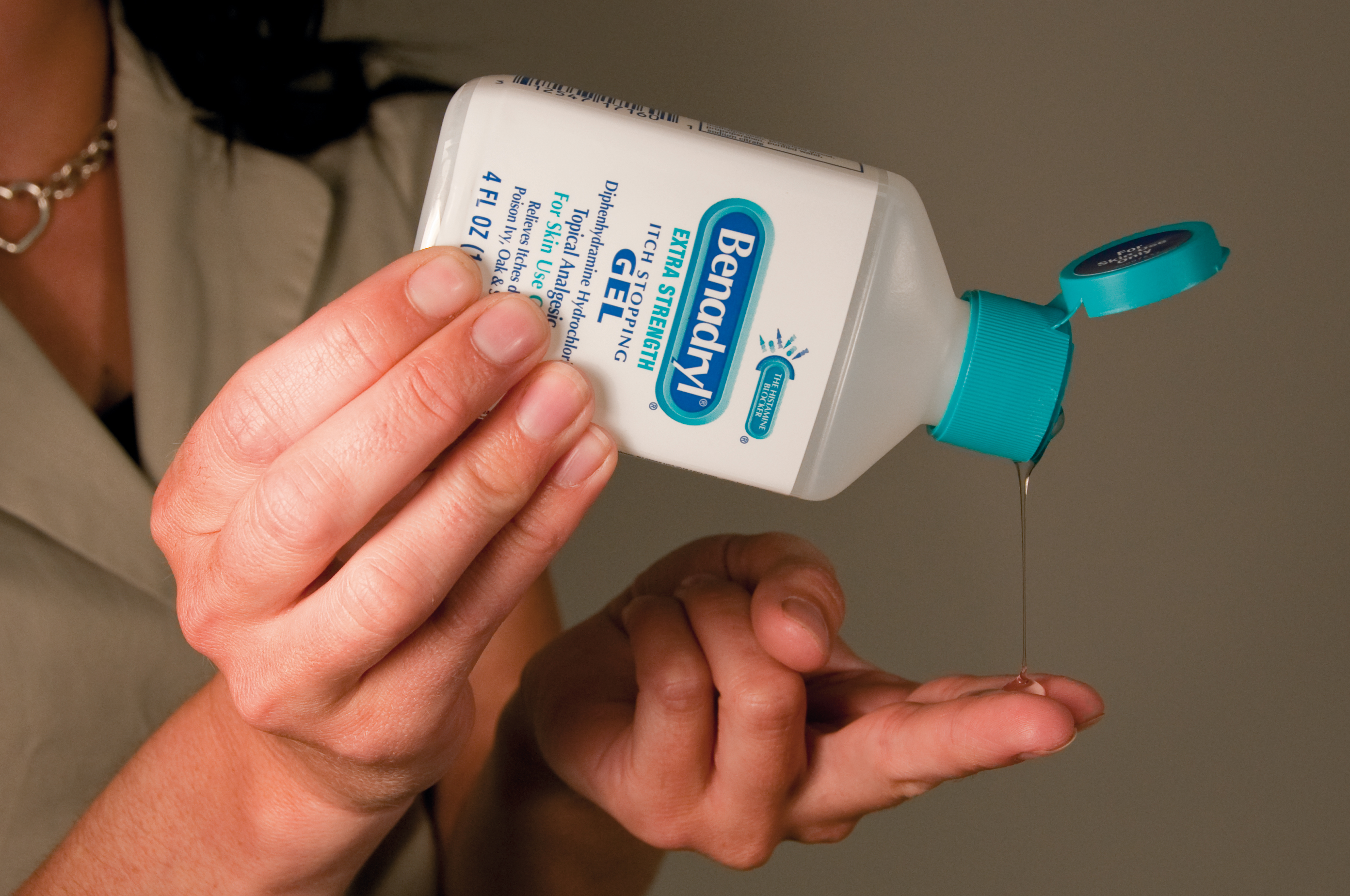 Swallowing a Benadryl gel product meant to be rubbed on the skin has caused serious side effects. FDA gives advice to consumers to help them avoid this type of error: For more about medicine safety, see these FDA Consumer Updates: FDA photo by Michael J. Ermarth